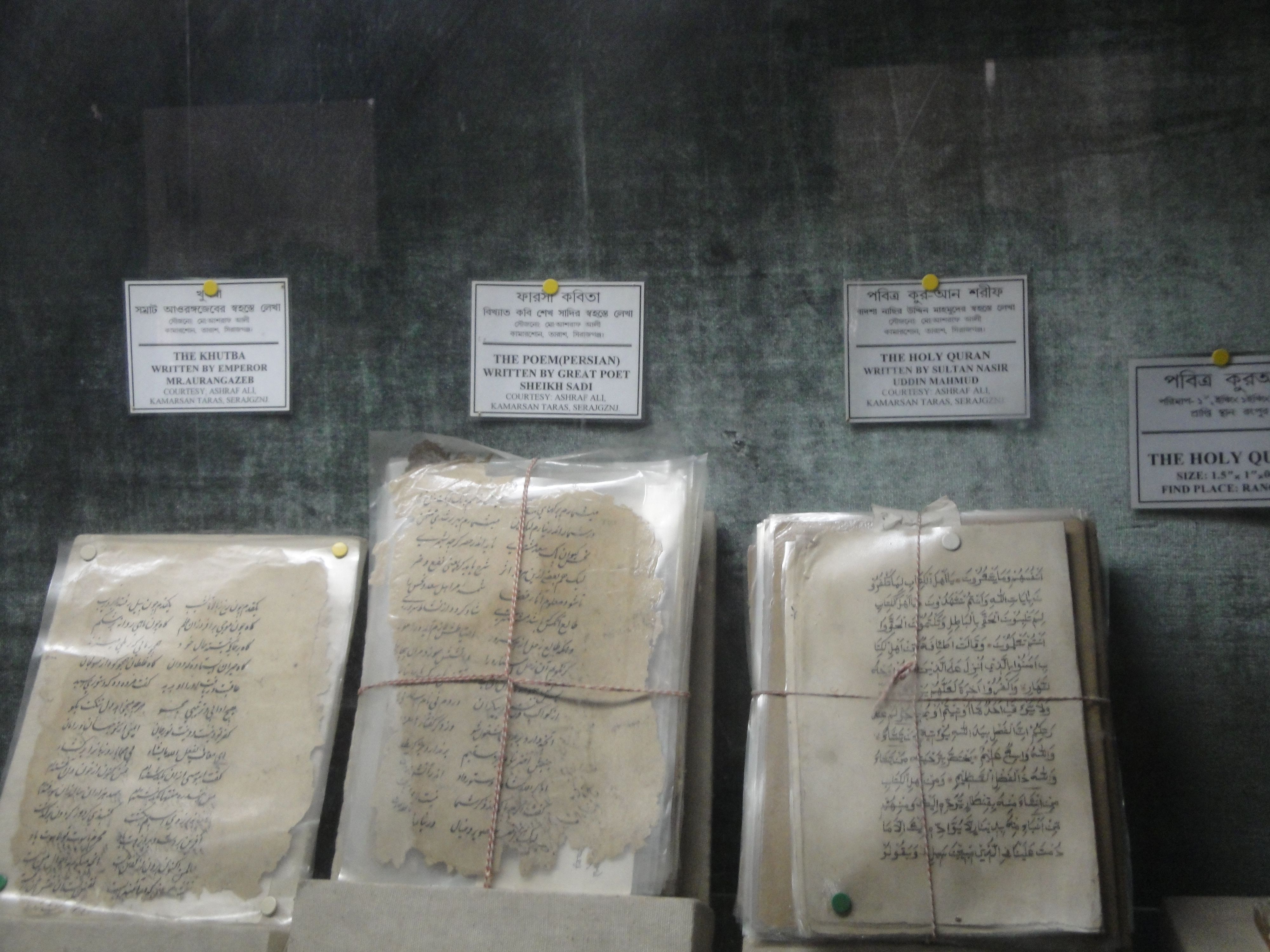 Rare Exhibits of Mughal Era in side Ahsan Manzil